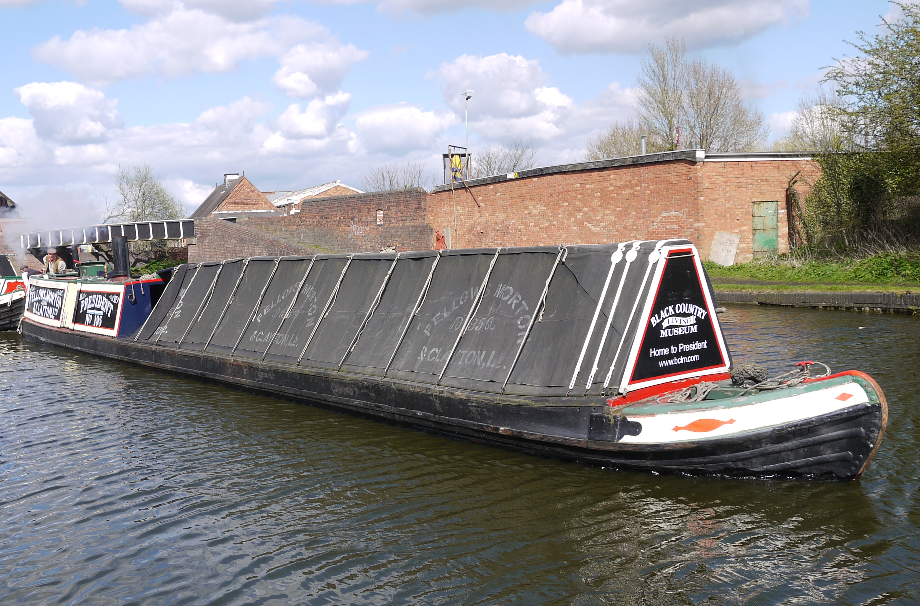 photo of the steam narrowboat President at the junction of the old main line and new main line towing the butty kildare